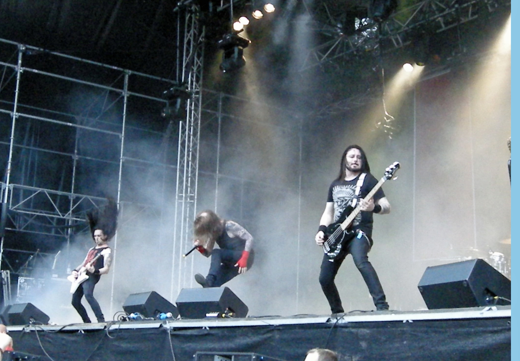 Swedish metal band Engel at Skogsröjet, Rejmyre, Sweden 2012